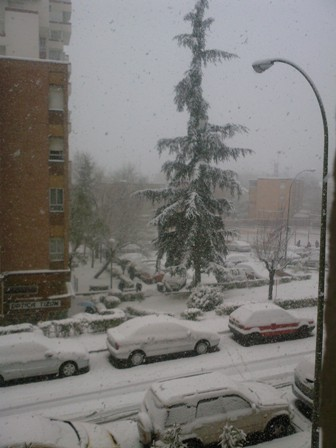 sdioirw